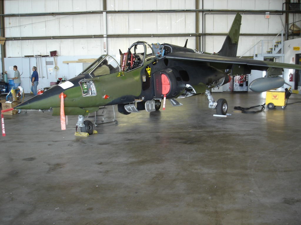 Top Aces' company Alpha Jet